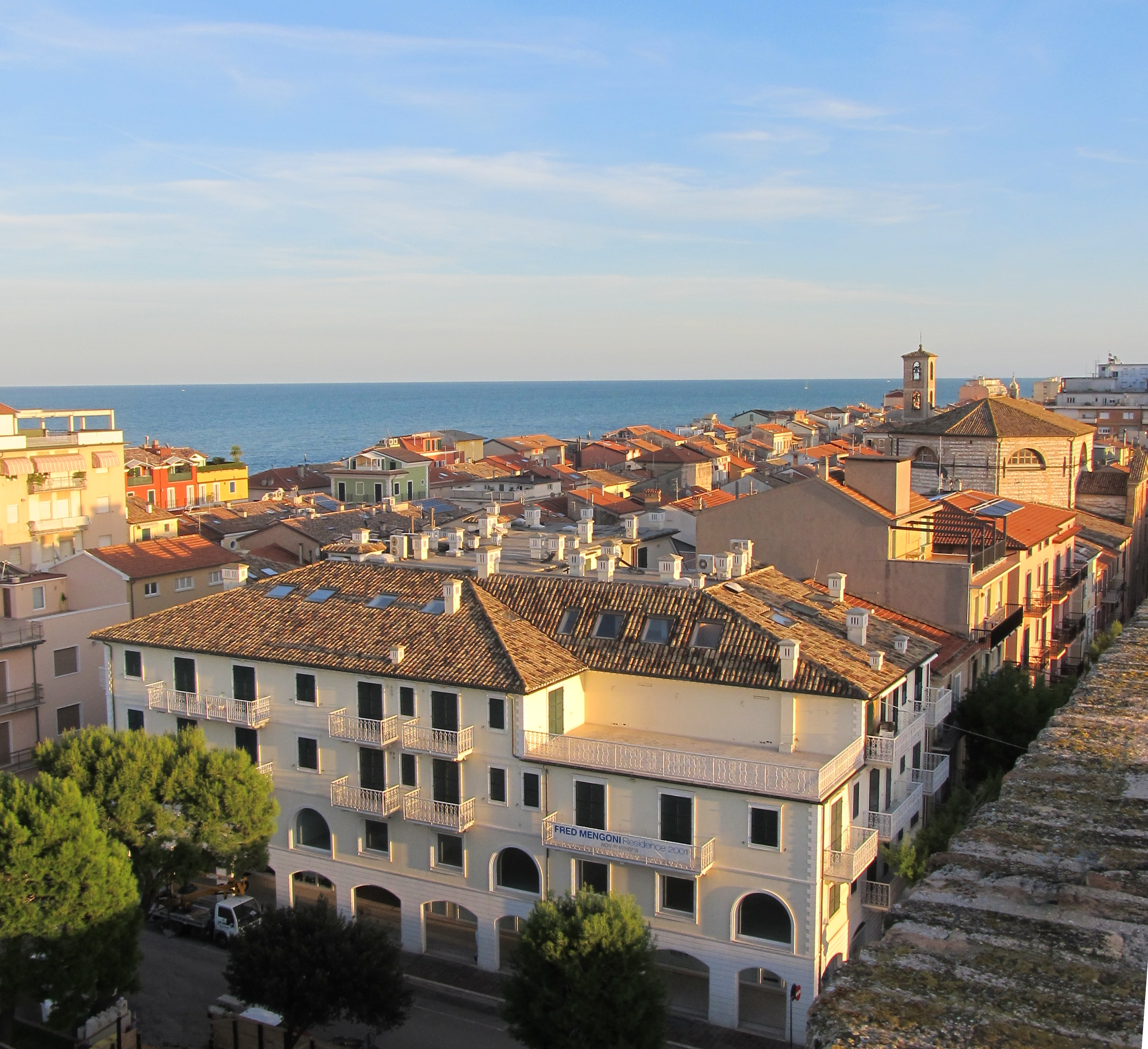 Landscape of Porto Recanati from Castle tower